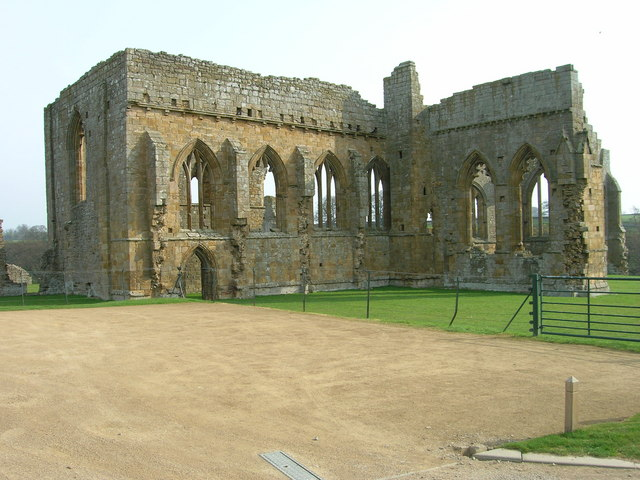 Egglestone Abbey Church Dating from the 13th C.